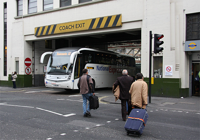 Victoria Coach Station A National Express coach takes advantage of a break in traffic to escape the confines of the coach station.